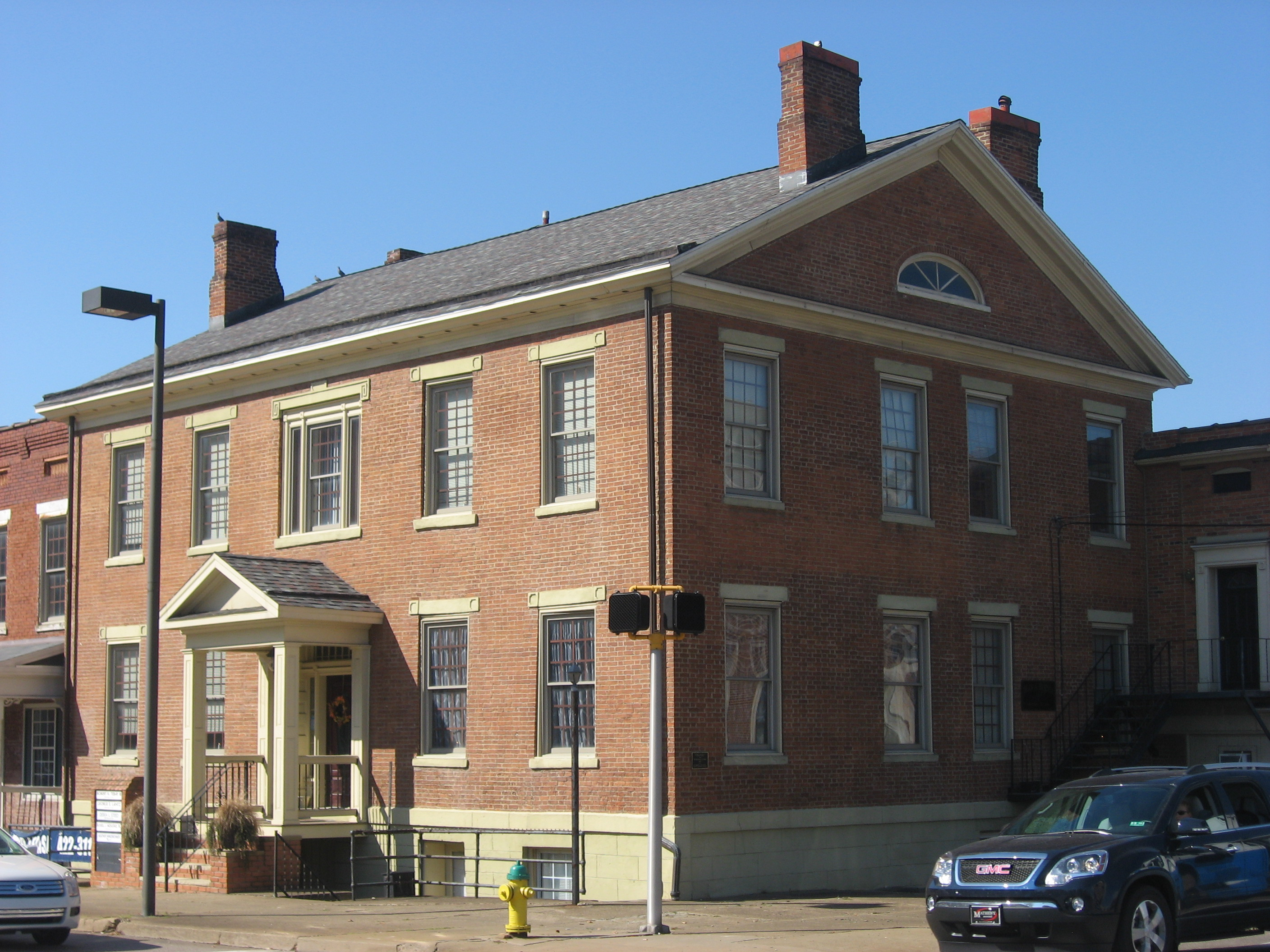 Front and eastern side of the George Neale, Jr., House, located at 331 Juliana Street (West Virginia Route 68, at the intersection with West Virginia Routes 14 and 618) in Parkersburg, West Virginia, United States. Built in 1840, it is listed on the National Register of Historic Places.